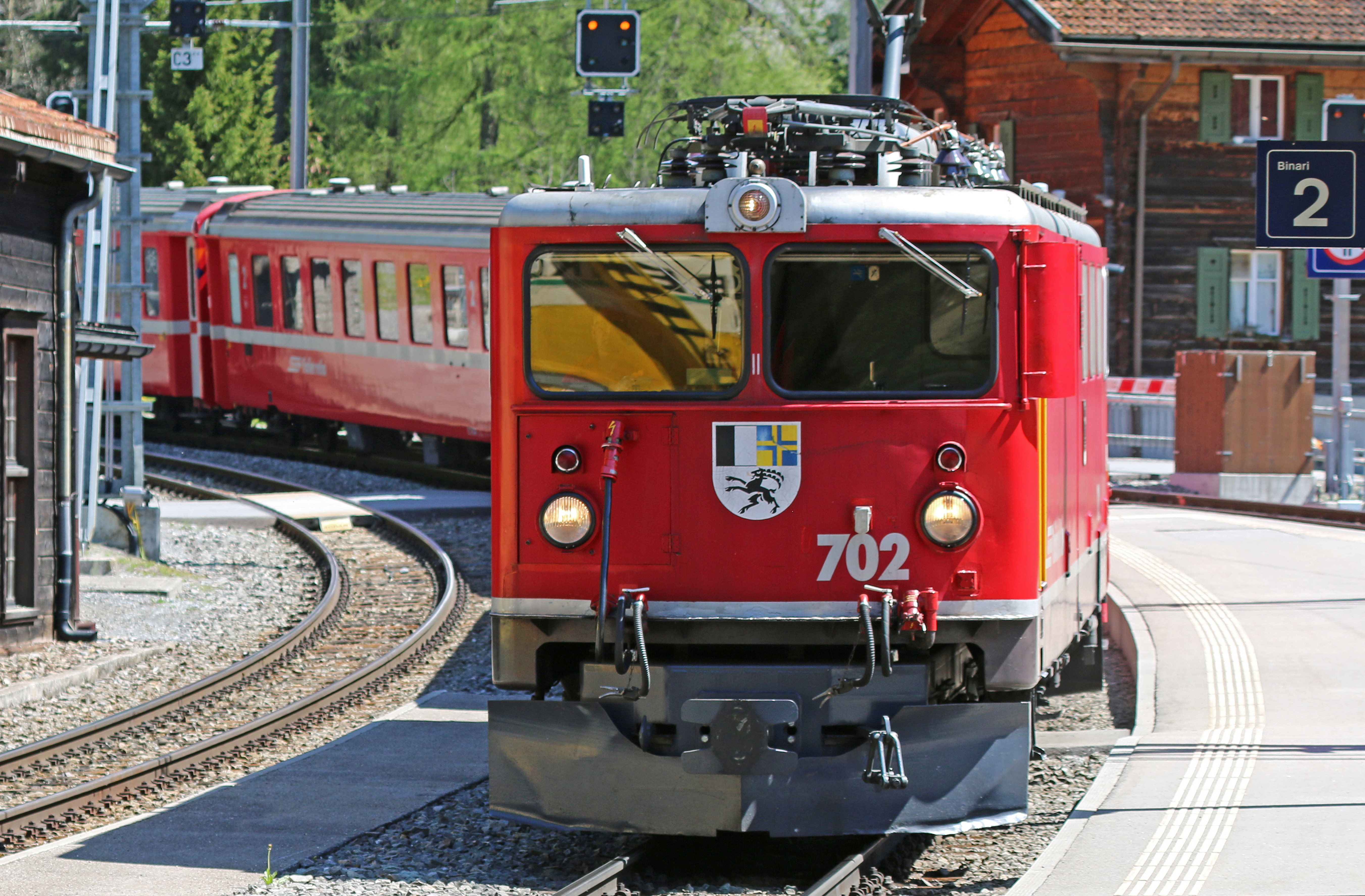 Electric locomotive typ Ge 6/6 II (Bo'Bo'Bo') of the meter gauge Rhaetian Railways entering the station of Bergün/Albula